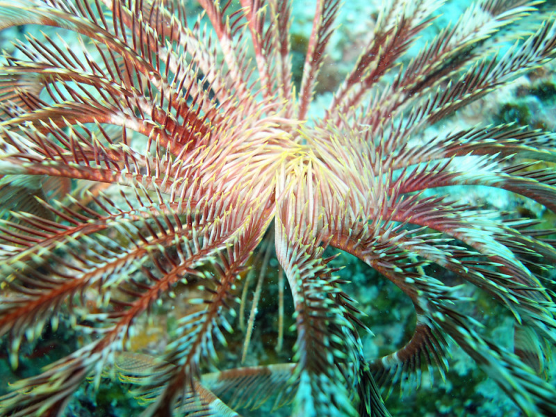 Stephanometra tenuipinna showing spike-like pinnules covering the central part of the body.